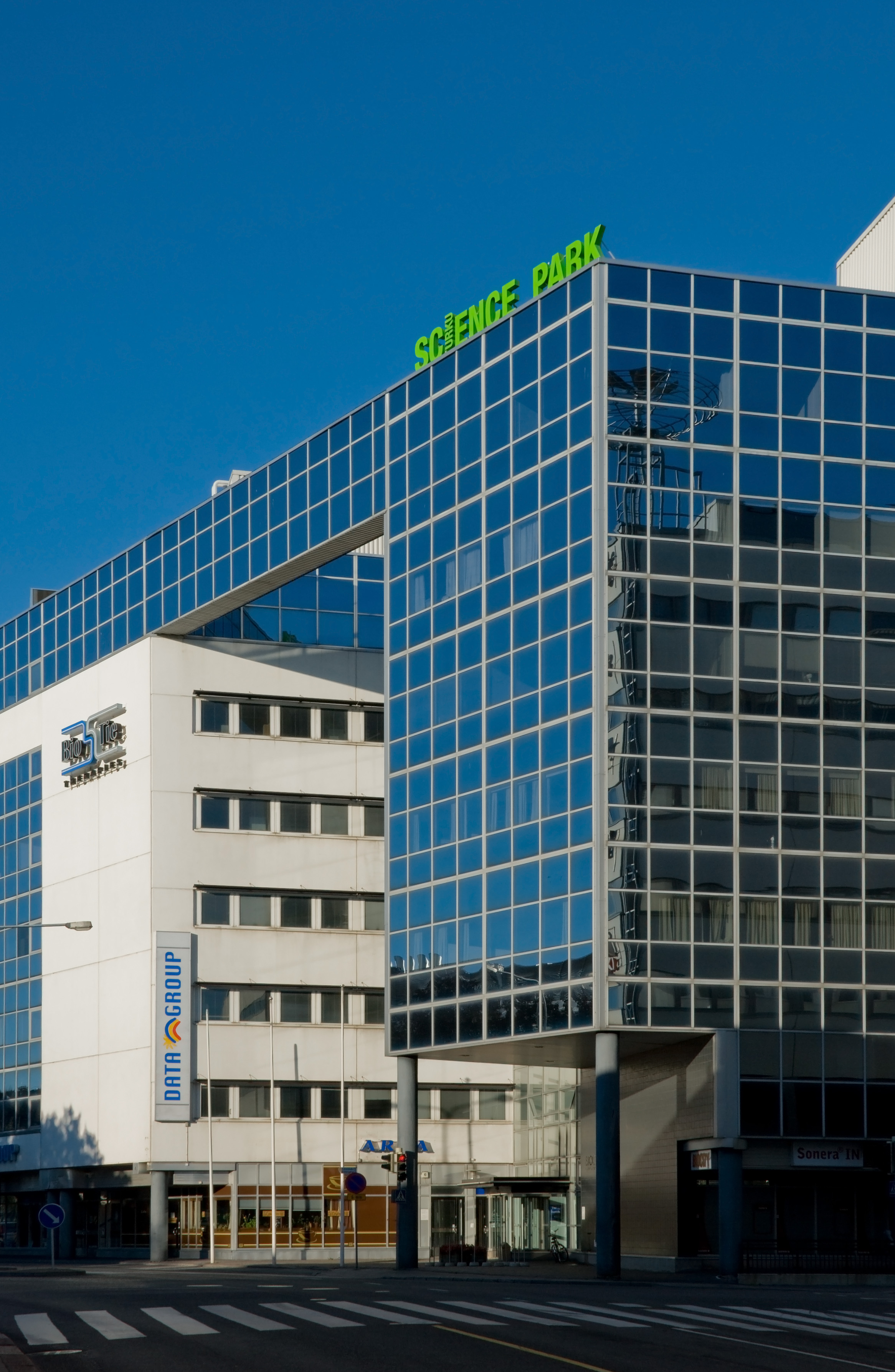 Turku Science Park main building.